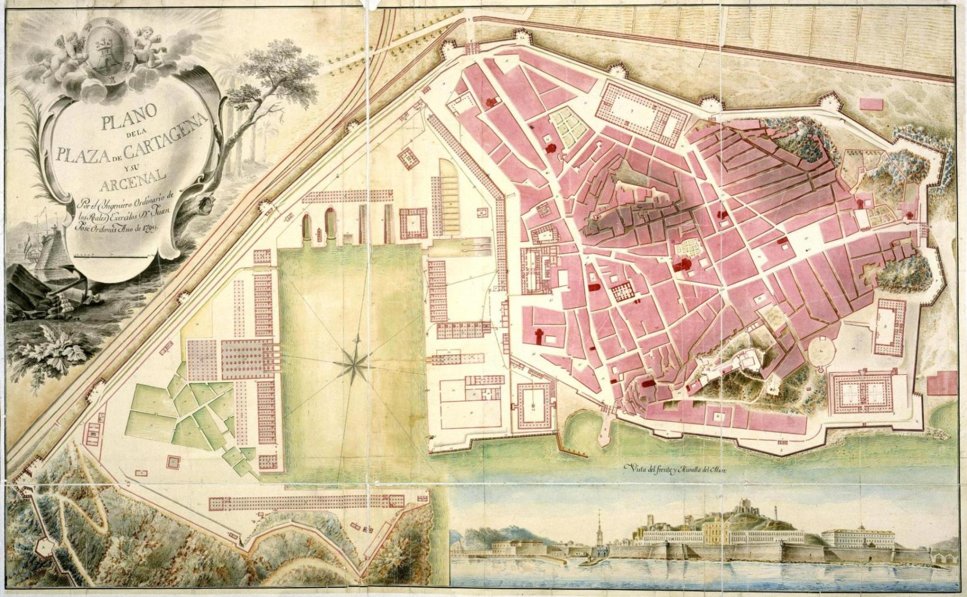 Plan of the Spanish city of Cartagena with his Arsenal in 1799, drawn by the military engineer Juan José Ordovás for his work Atlas político y militar del Reyno de Murcia. Author's description in